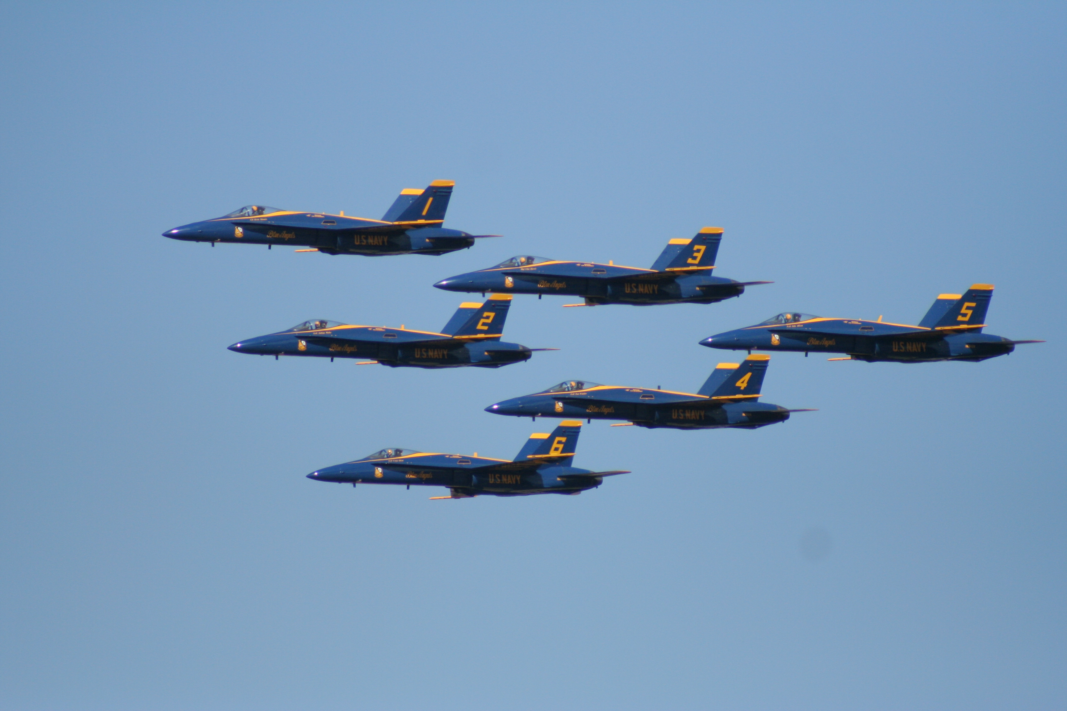 Taken at the 2007 Oregon International Air Show